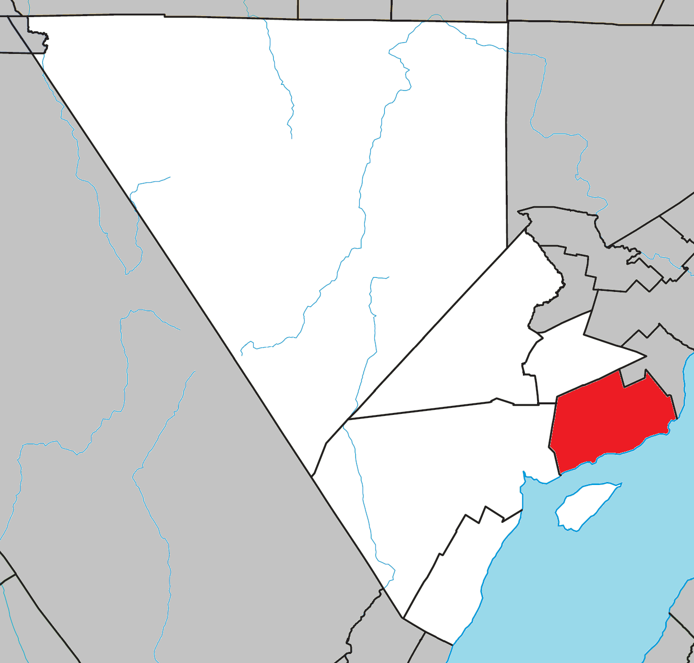 Location of Les Éboulements, Quebec within Charlevoix Regional County Municipality.